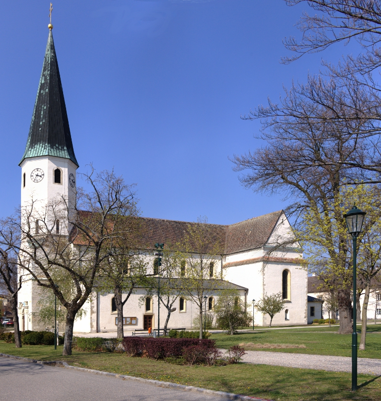 Church St. Veit Laa an der Thaya, Lower Austria